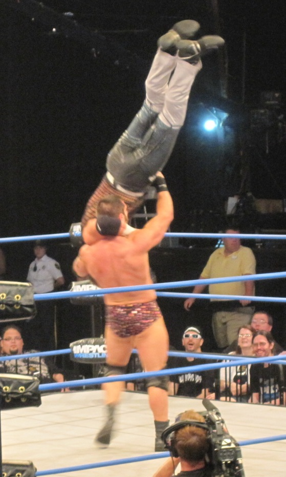 Professional wrestler Austin Aries performing a brainbuster on Jimmy Rave.